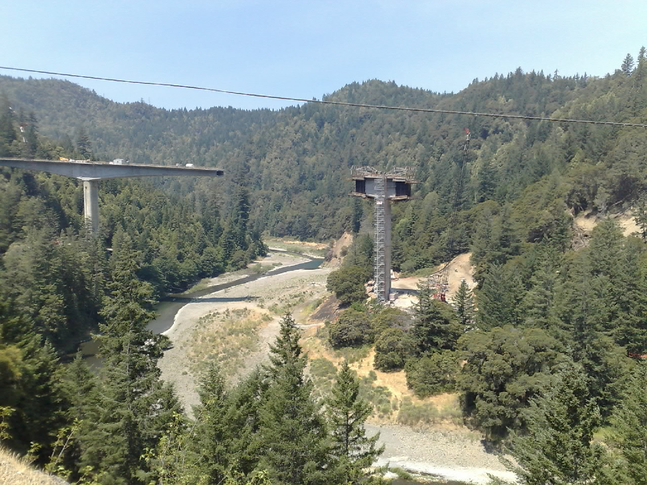 South Confusion Hill Bridge under construction, Mendocino County, California